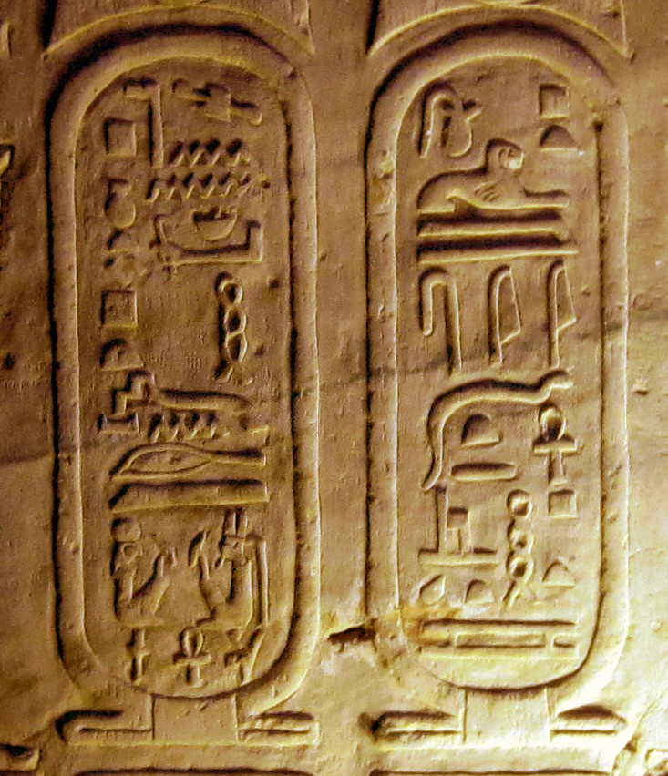 Cartouches of Ptolemy XII Auletes. Relief in Kom Ombo Temple, Egypt.